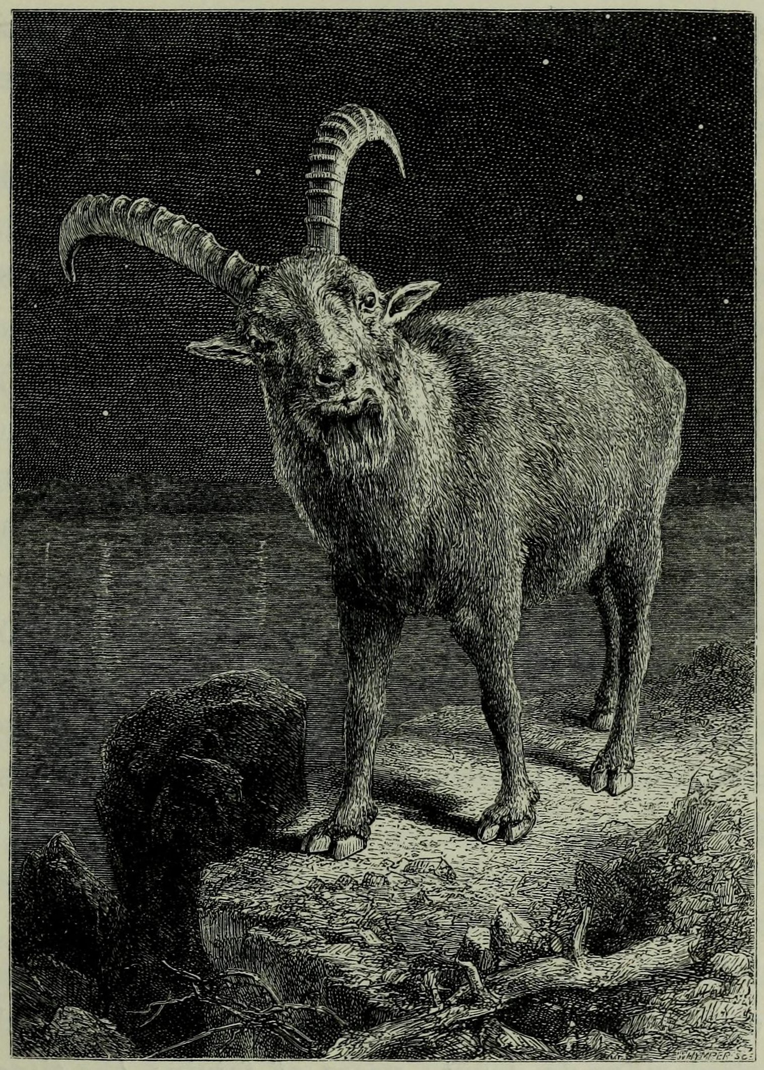 Image on page 353 of Scrambles amongst the Alps